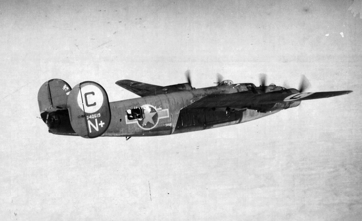 B-24D-80-CO Liberator s/n 42-40619 567th Bomb Squadron, 389th Bomb Group, 8th Air Force. Lost on Feb. 24,1944 mission to Gotha,Germany. 3 KIA, 7 POW. Participated in the August 1,1943 low-level Ploesti,Romania mission.